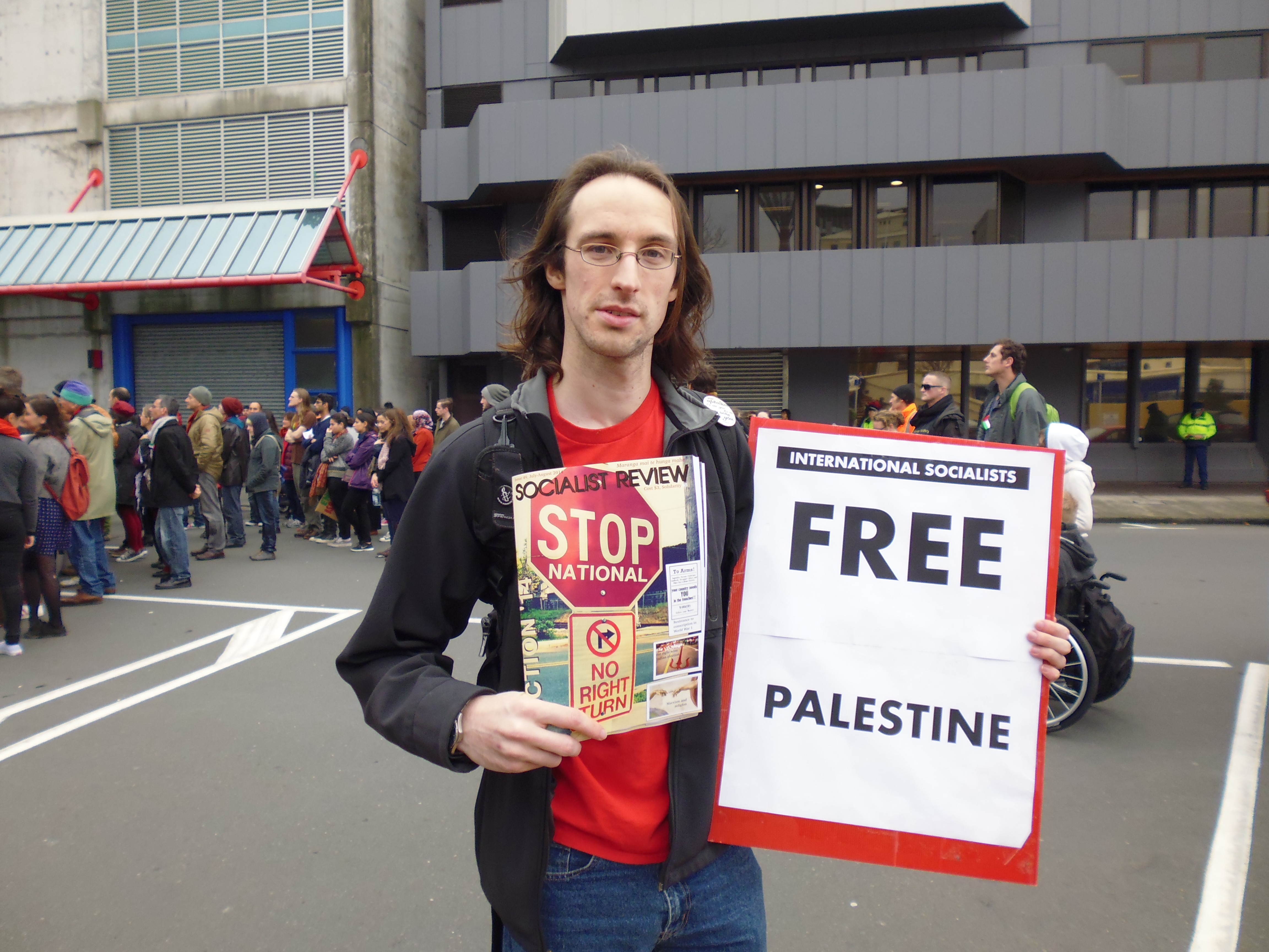 A socialist selling political periodicals at a protest against the bombing of the Gaza strip by Israeli forces.